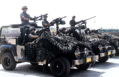 The CMC Cruiser as shown in an AFP Anniversary parade.